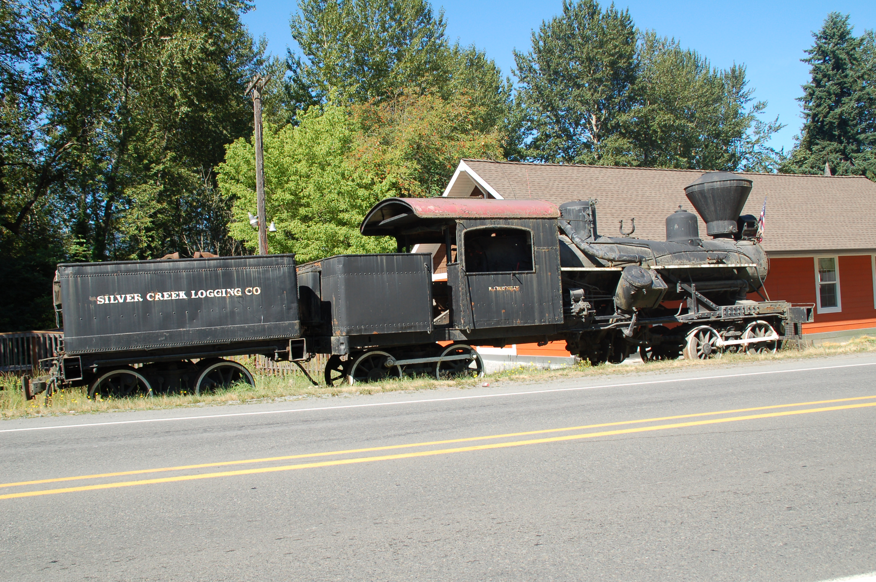 Heisler steam locomotive, #1252, at the rail station Elbe, Washington.